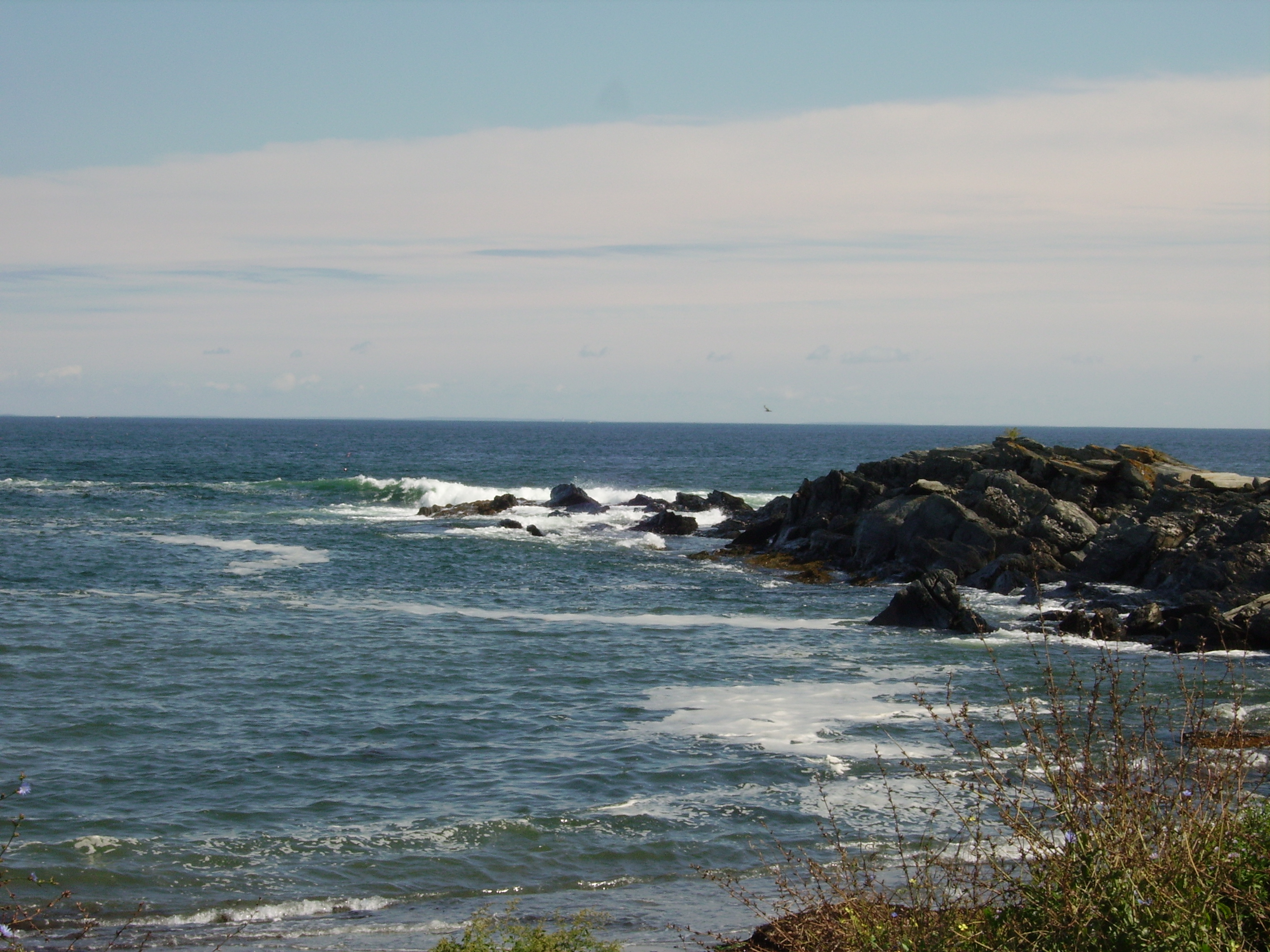 This is the coast of Maine, somewhere around the Kennebunk area.